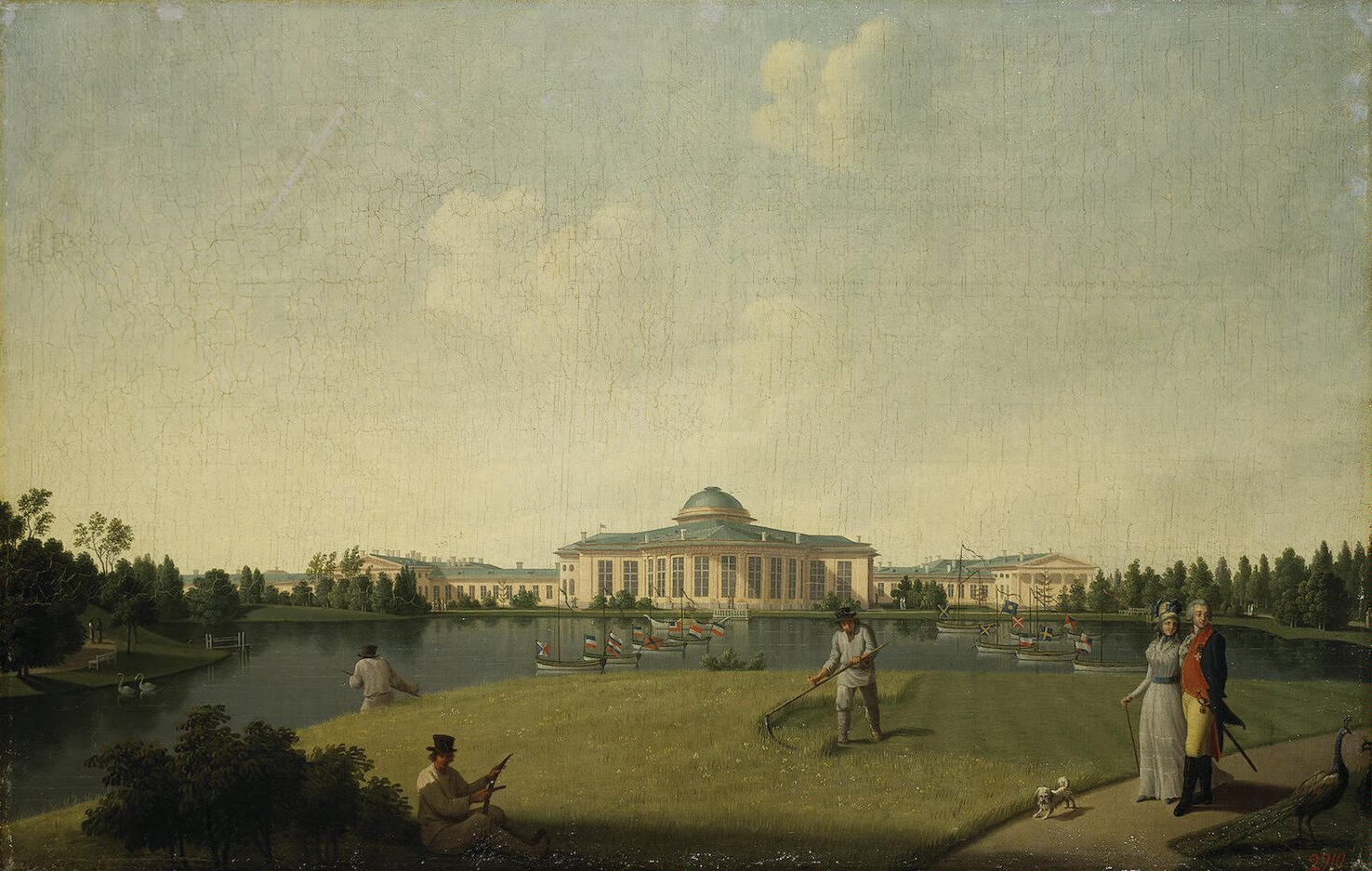 View of the Tauride Palace from the Garden sidelabel QS:Len,"View of the Tauride Palace from the Garden side"label QS:Lru,"Вид Таврического дворца со стороны сада"